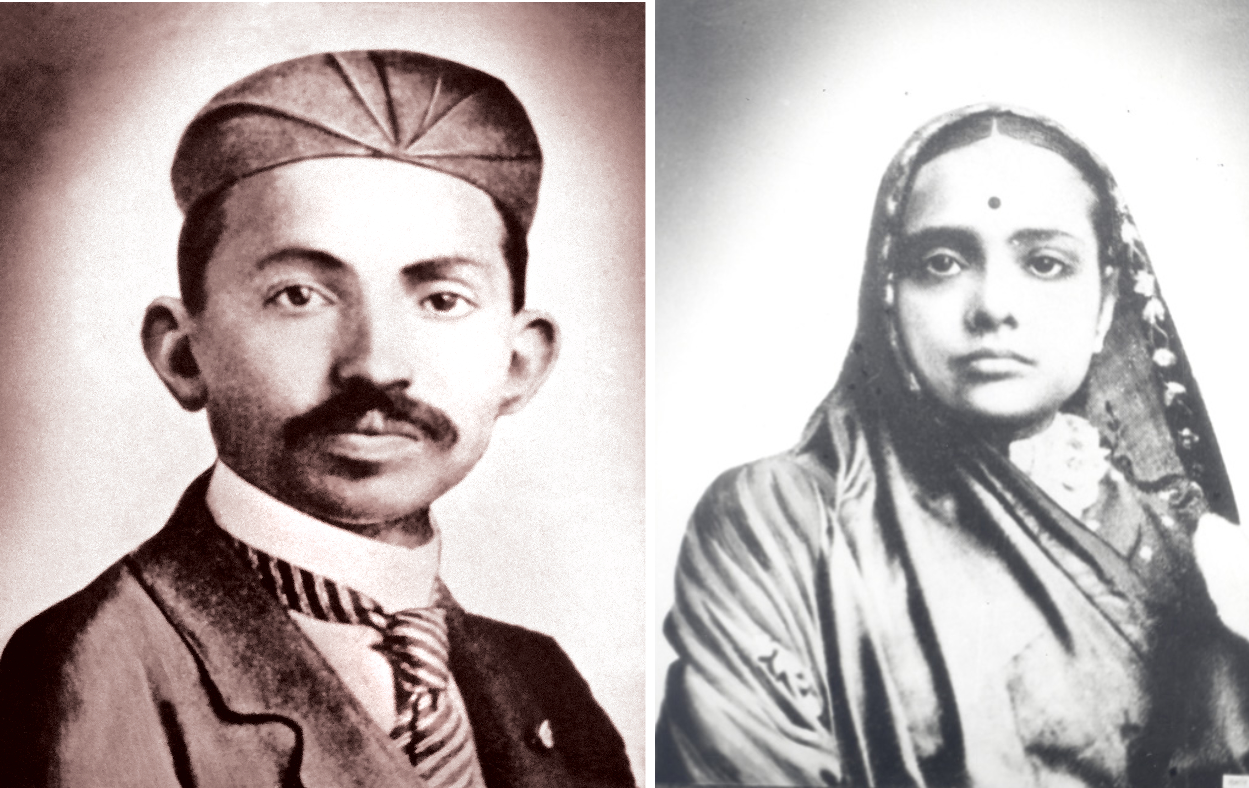 Gandhi and his wife Kasturbhai, 1902.